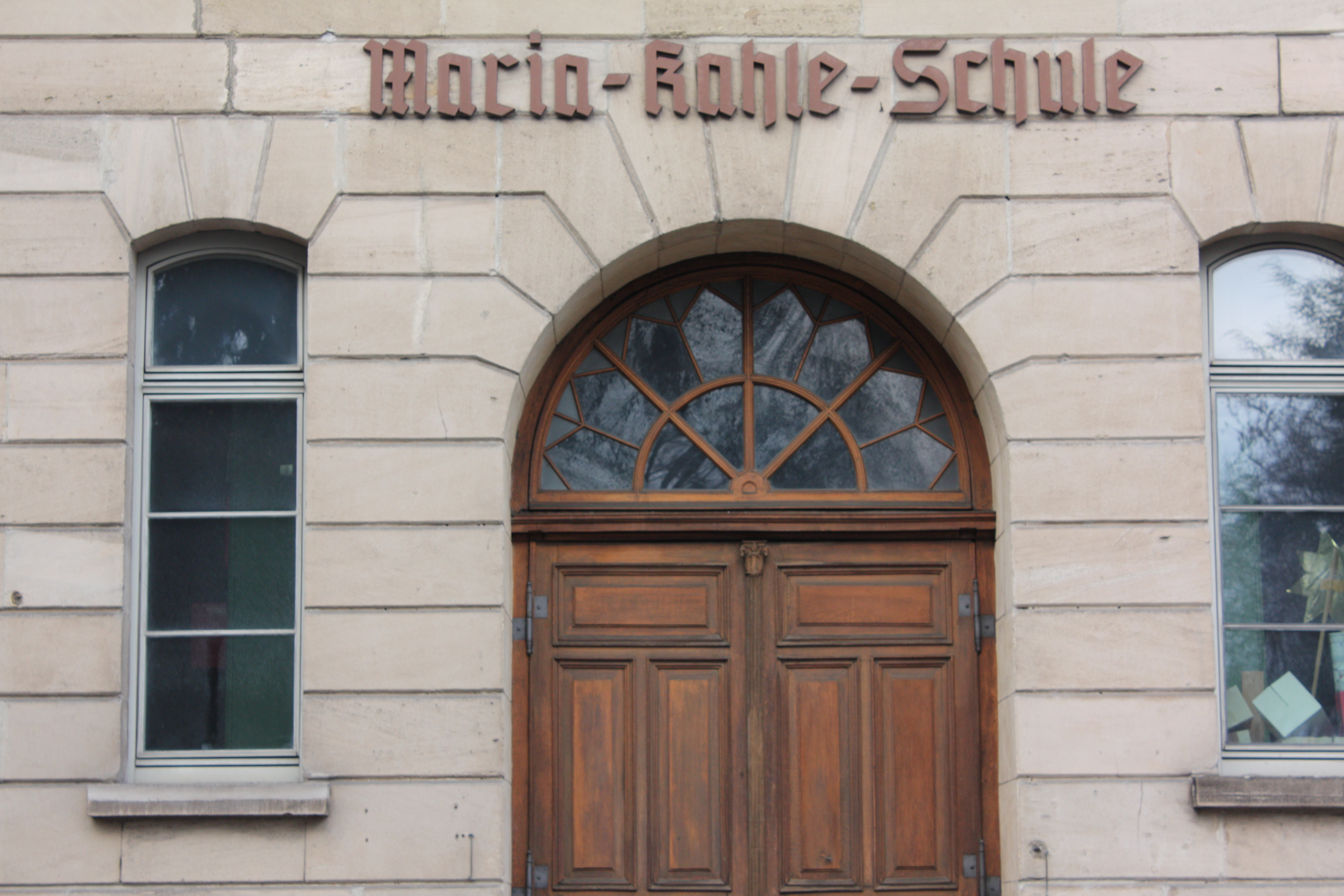 Portal of the "Klösterle-Schule" in Schwäbisch Gmünd, Germany, with the lettering "Maria-Kahle-Schule". Maria Kahle (1891-1975) was a german writer.